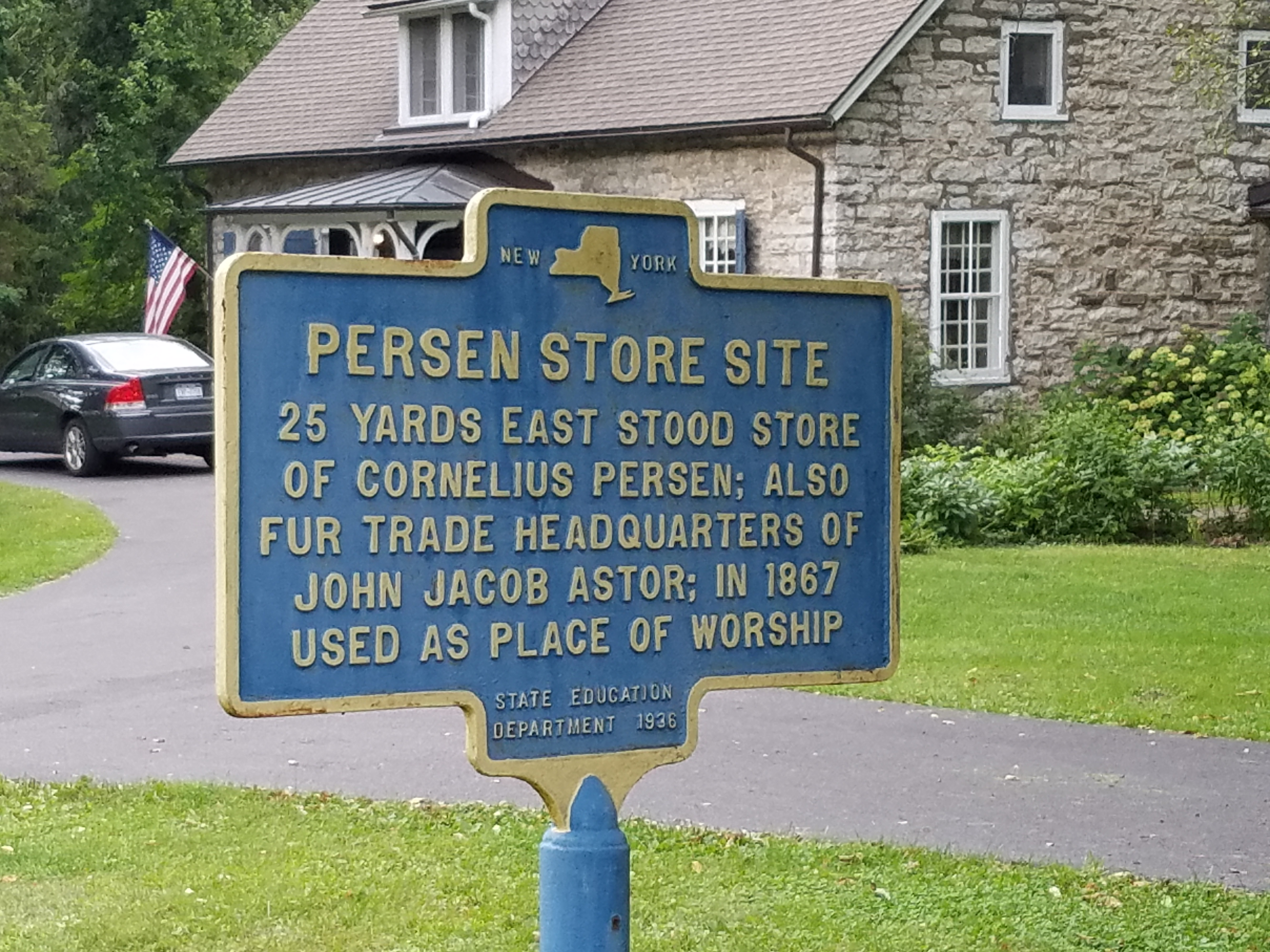 New York State historic marker for the Persen Store Site.